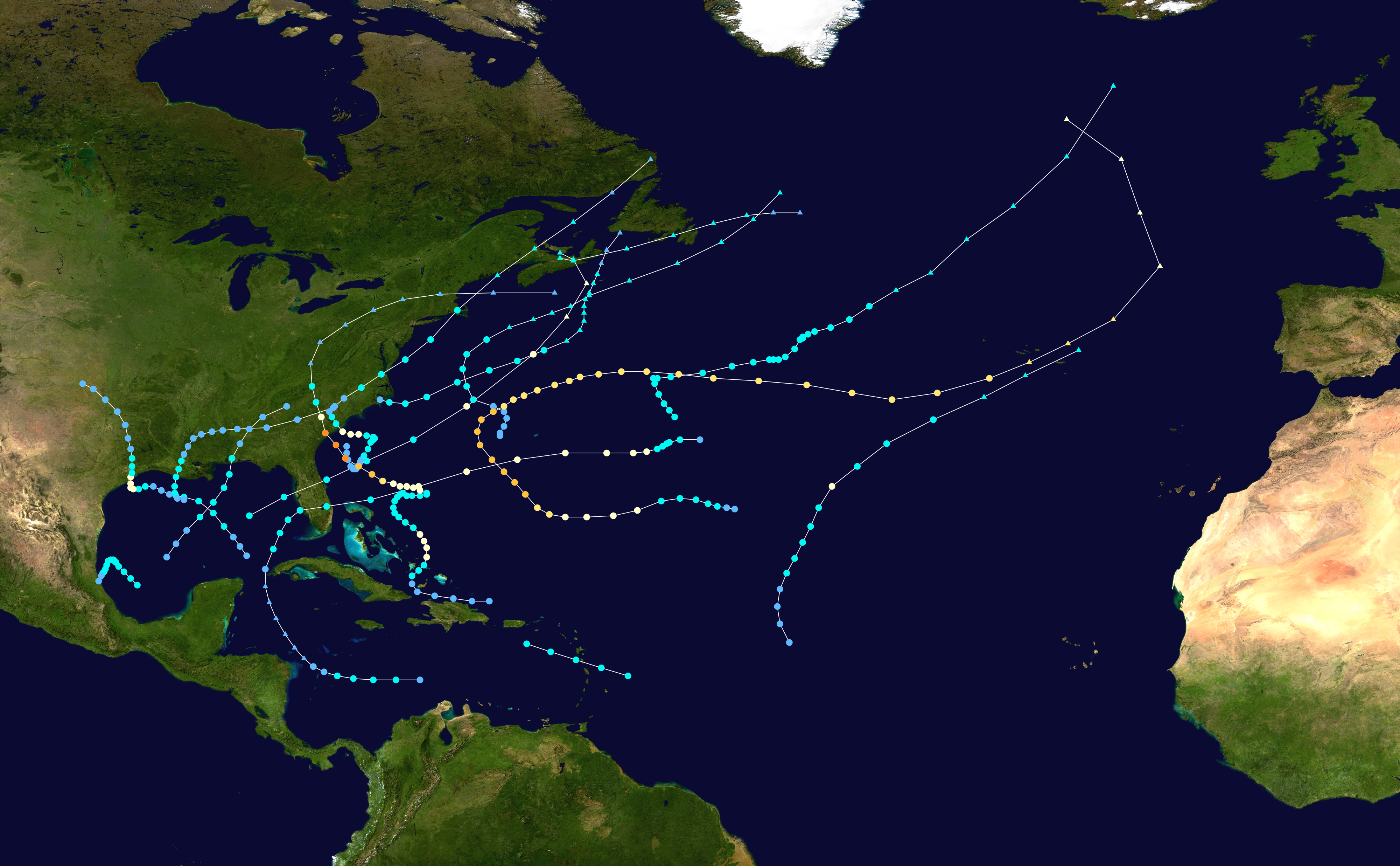 This map shows the tracks of all tropical cyclones in the 1959 Atlantic hurricane season. The points show the location of each storm at 6-hour intervals. The colour represents the storm's maximum sustained wind speeds as classified in the Saffir-Simpson Hurricane Scale (see below), and the shape of the data points represent the type of the storm. Saffir–Simpson scale Tropical depression≤38 mph≤62 km/h Category 3111–129 mph178–208 km/h Tropical storm39–73 mph63–118 km/h Category 4130–156 mph209–251 km/h Category 174–95 mph119–153 km/h Category 5≥157 mph≥252 km/h Category 296–110 mph154–177 km/h Unknown Storm type Tropical cyclone Subtropical cyclone Extratropical cyclone / Remnant low / Tropical disturbance / Monsoon depression